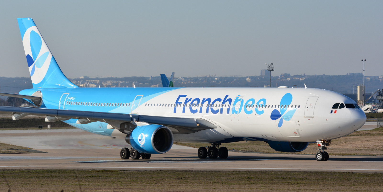 Airbus A330-300 F-HPUJ - French Bee